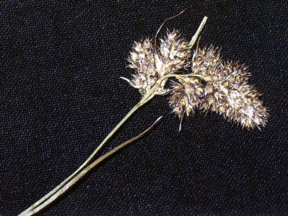 Luzula spicata from Robert H. Mohlenbrock. USDA NRCS. 1992. Western wetland flora: Field office guide to plant species. West Region, Sacramento. Courtesy of USDA NRCS Wetland Science Institute. Cropped.